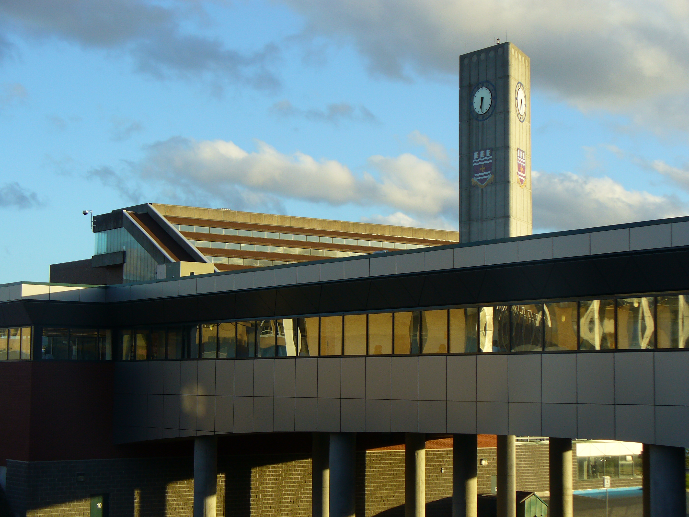 I am the originator of this photo. I hold the copyright. I release it to the public domain. This photo depicts the Queen Elizabeth II Library, University Centre, and clocktower on the St. John's campus of Memorial University of Newfoundland.